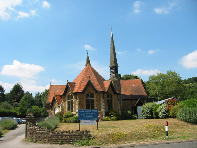 United Reformed Church, Wonersh, Surrey, England